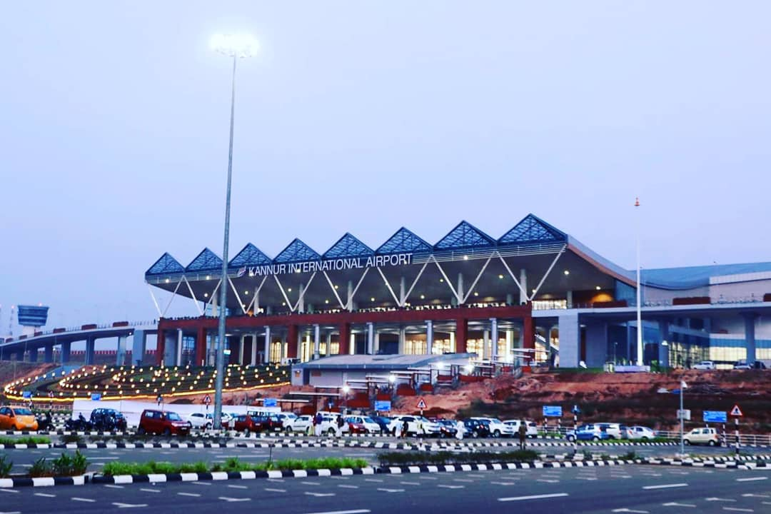 cnn exterior